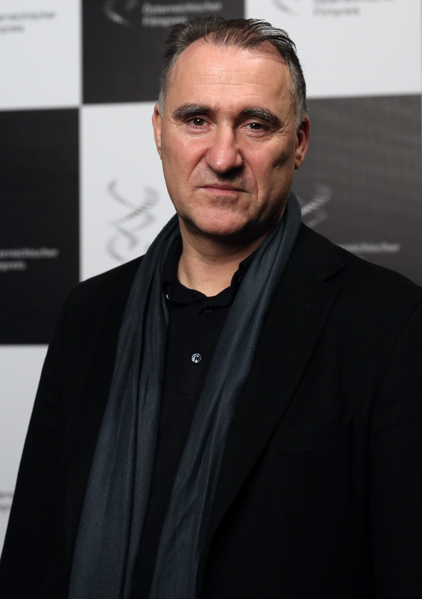 Kurt Stocker, producer of the best movie ("Deine Schönheit ist nichts wert"), at the Austrian Film Awards 2014 (Grafenegg, Austria).